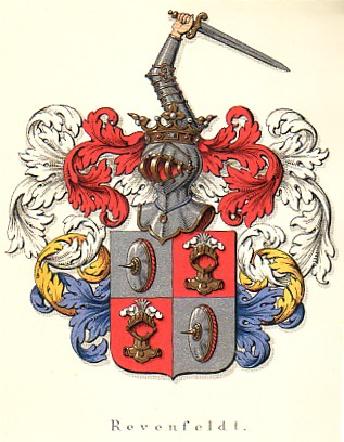 Coat of arms of the Revenfeld family